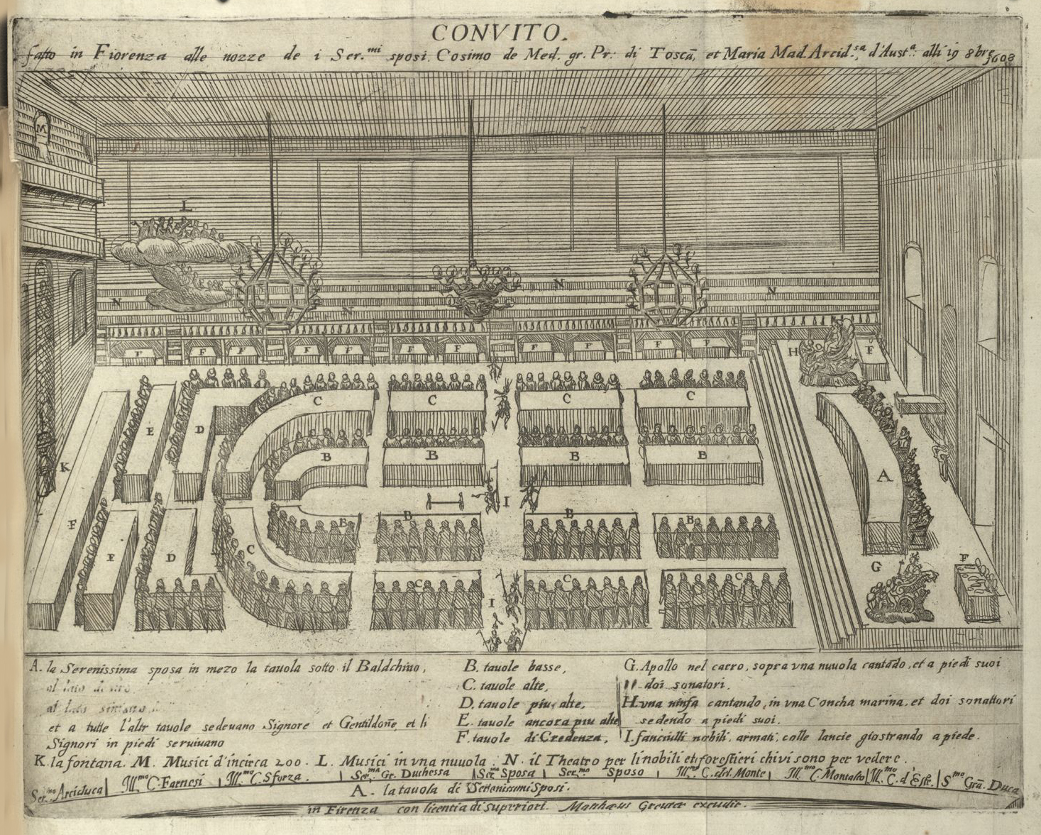 Designed by Matthäus Greuter, the wedding banquet (of Cosimo II de' Medici and Maria Magdalena, Archduchess of Austria in 1608), showing the arrangement of tables in the hall